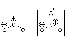 This sketch shows the ozone molecule (left) and the nitrate anion depicting formal charges on the atoms involved.